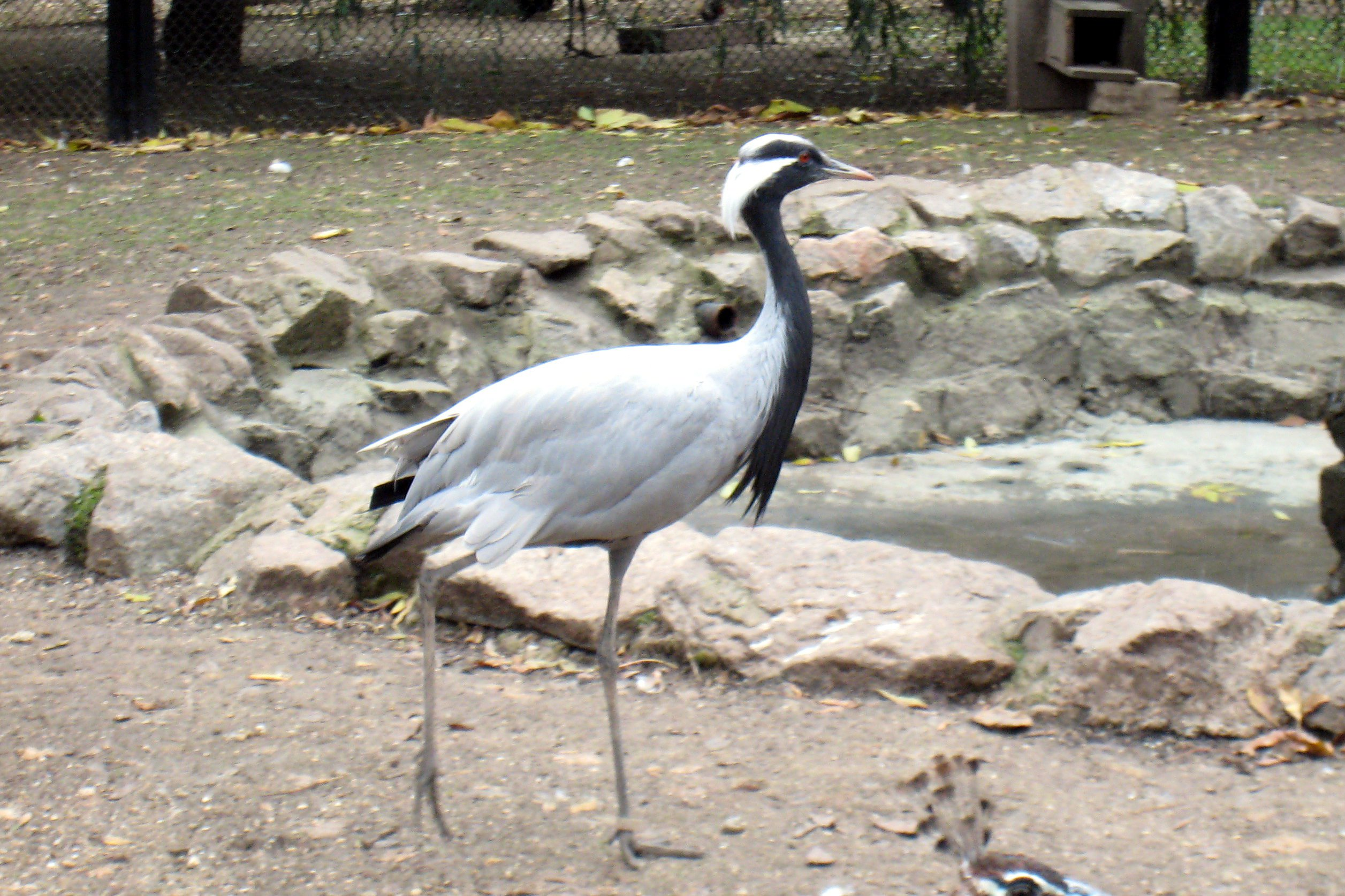 Askania Nova, a zoo located in Kherson Oblast, Ukraine